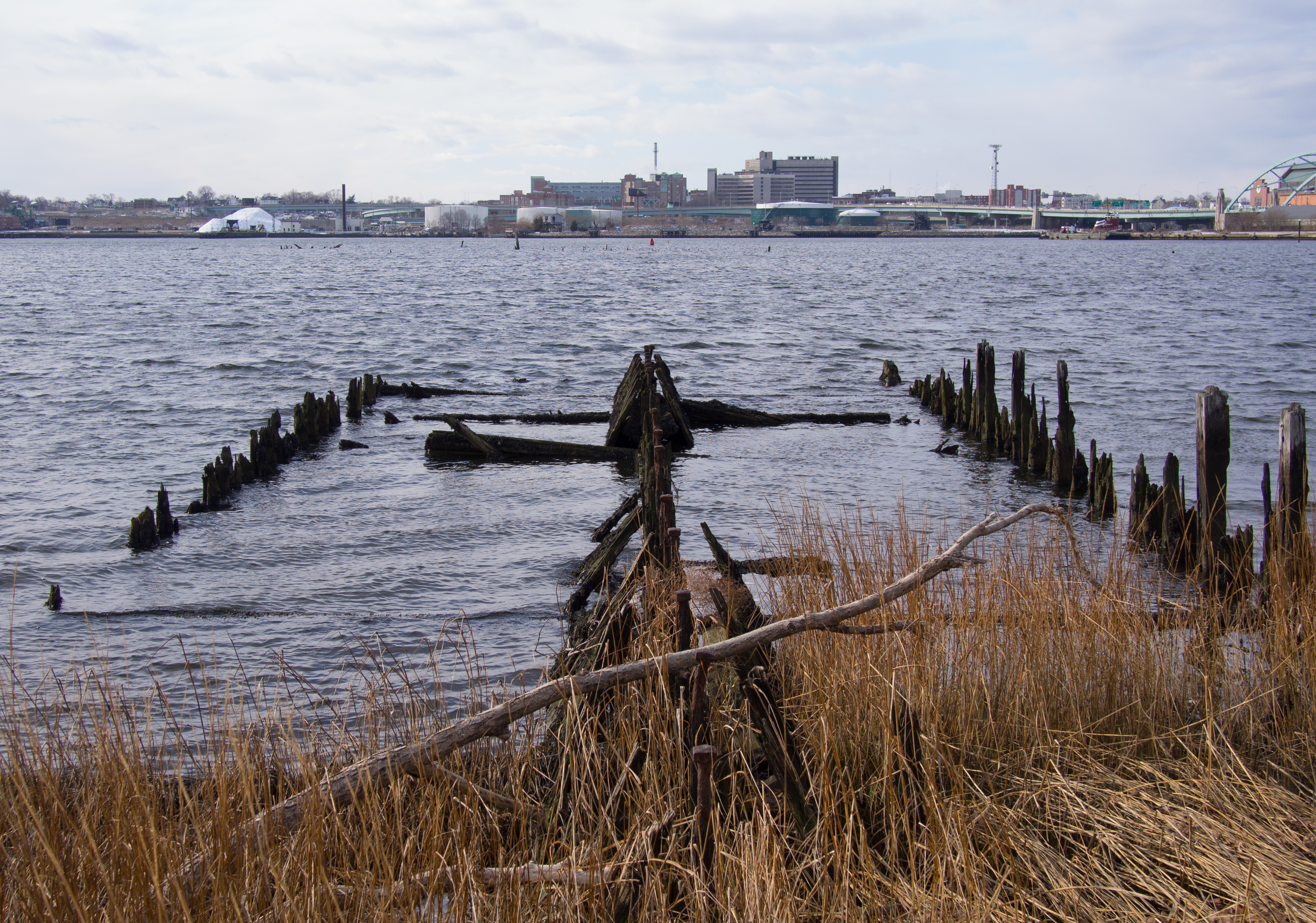 Green Jacket Shoal in Rhode Island, as seen from Bold Point Park in East Providence, RI.